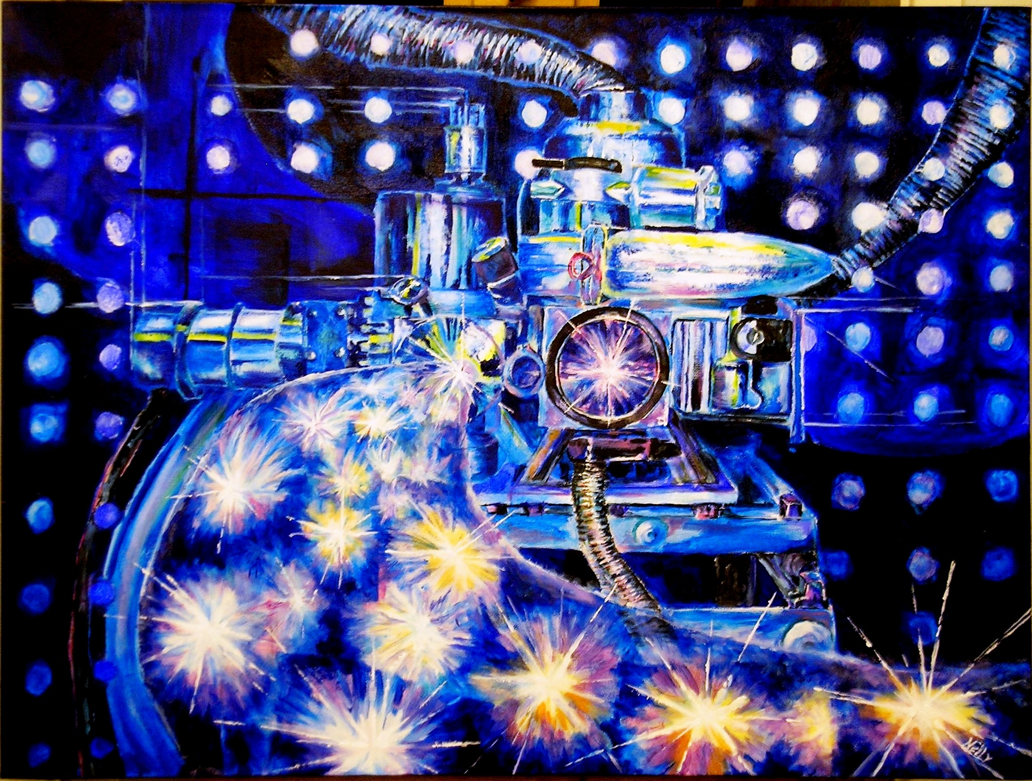 Artistic representation of the iPEPICO apparatus at the VUV beamline of the Swiss Light Source.